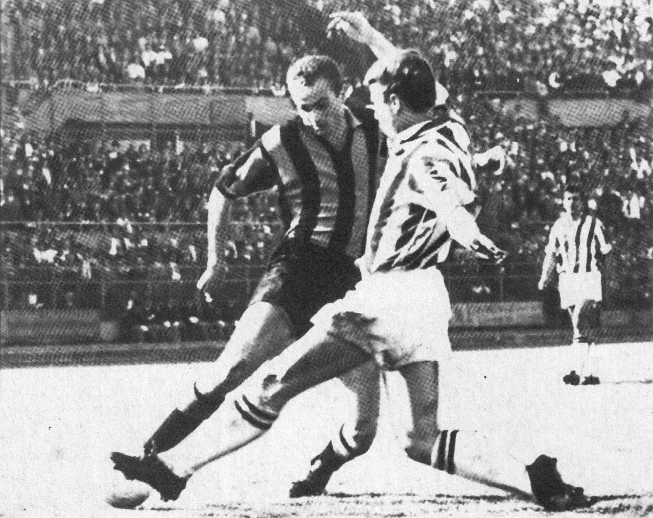 Turin (Italy), Communal Stadium, June 10, 1961. Juventus F.C. — Inter Milan 9-1, Italian League 1960–61 Serie A. Sandro Mazzola contrasts with Benito Sarti.